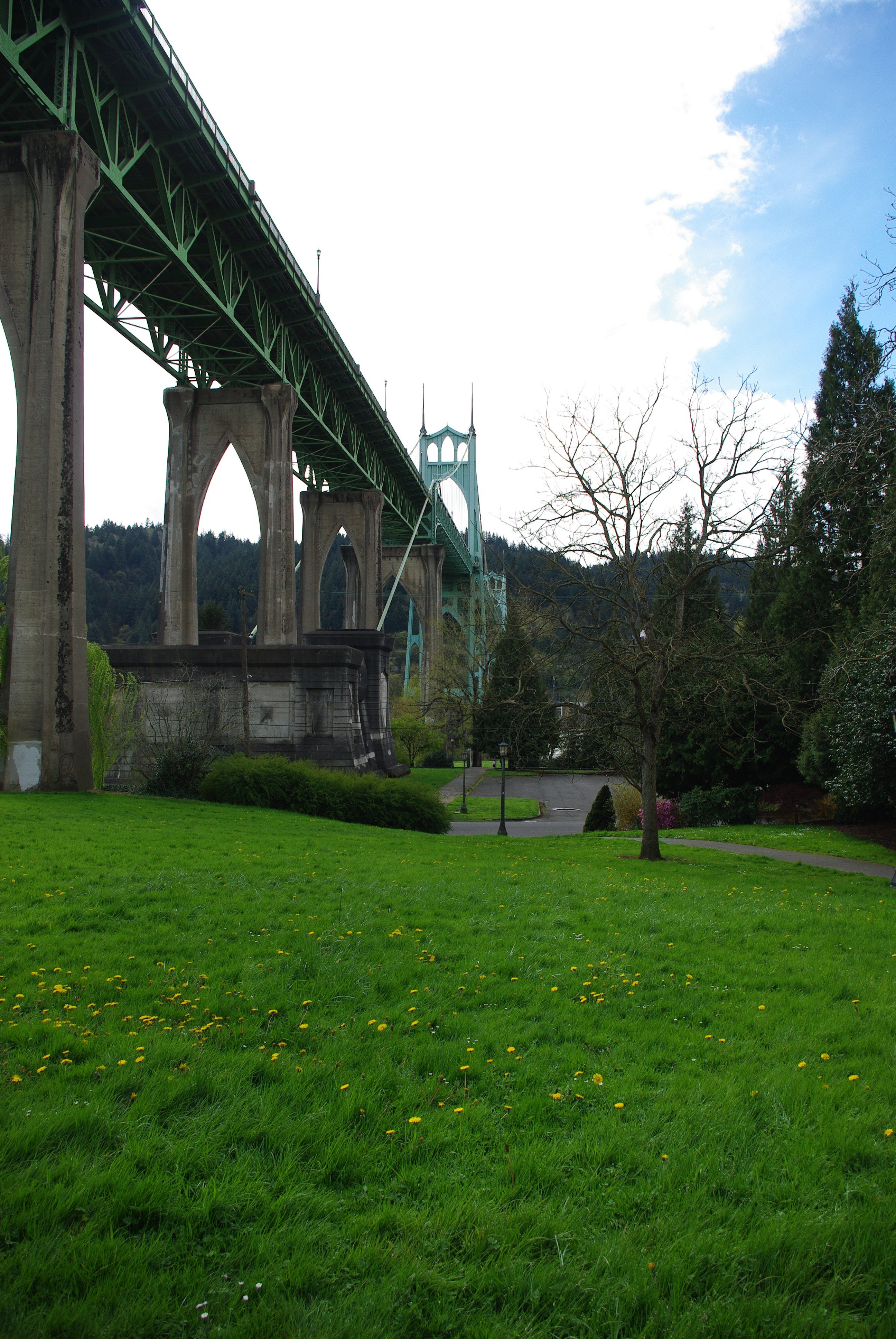 St. Johns Bridge from Cathedral Park in Portland, Oregon.